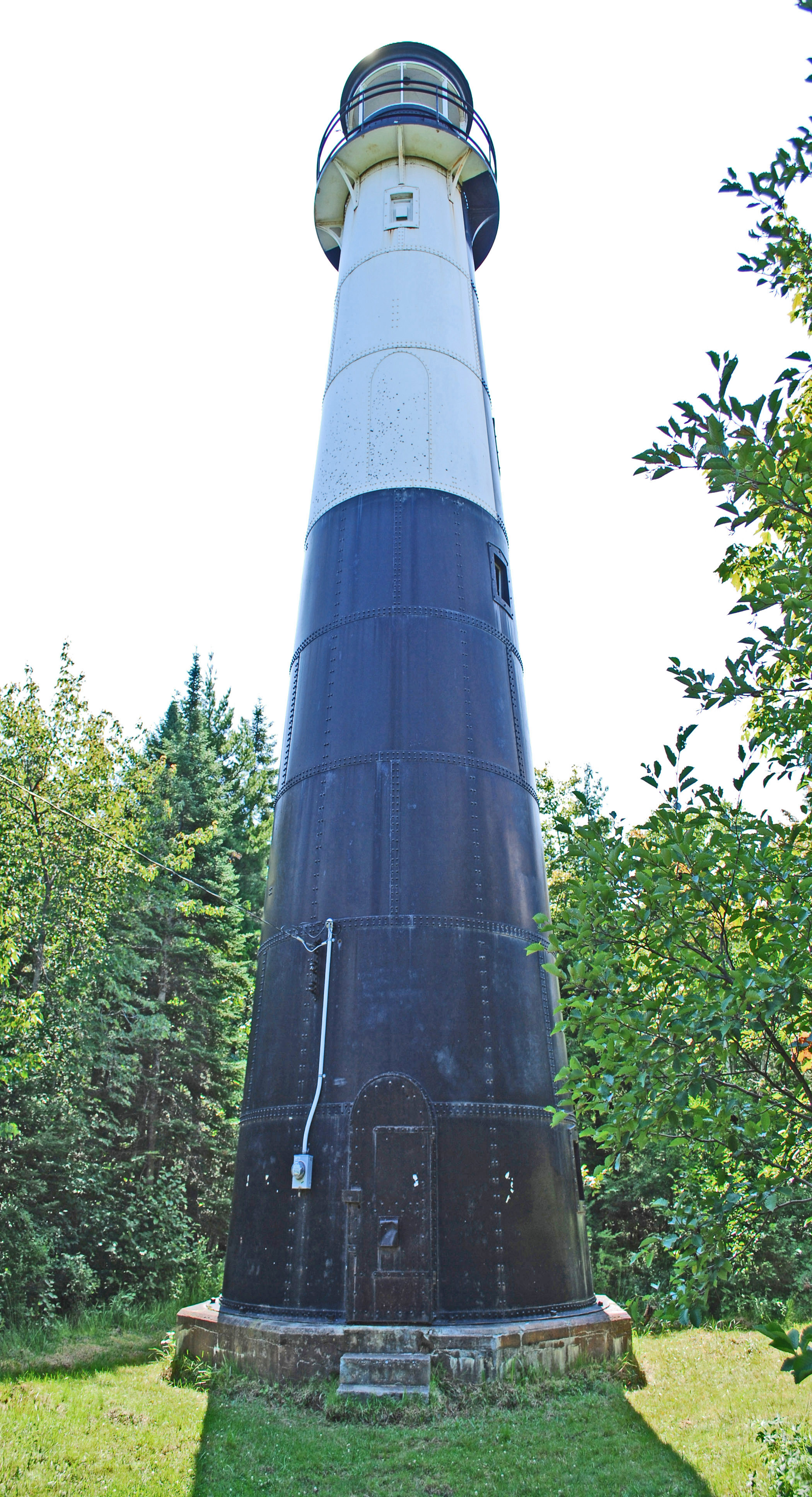 Grand Island Harbor Rear Range Light near Christmas MI